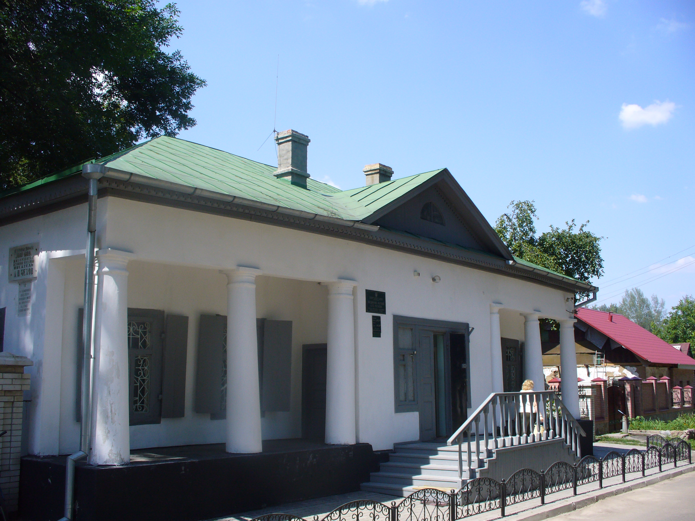 Photo of Chekhov's museum in Sumy, Ukraine